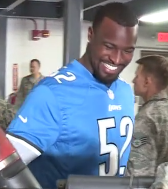 The Detroit Lions visited Selfridge ANGB, Michigan on November 15th, 2016 as part of the NFL's "Salute to Service" program. Players, Cheerleaders, Team Mascot "Roary," and Lions President Rod Wood met, took pictures with, and signed autographs for service members and their guests.